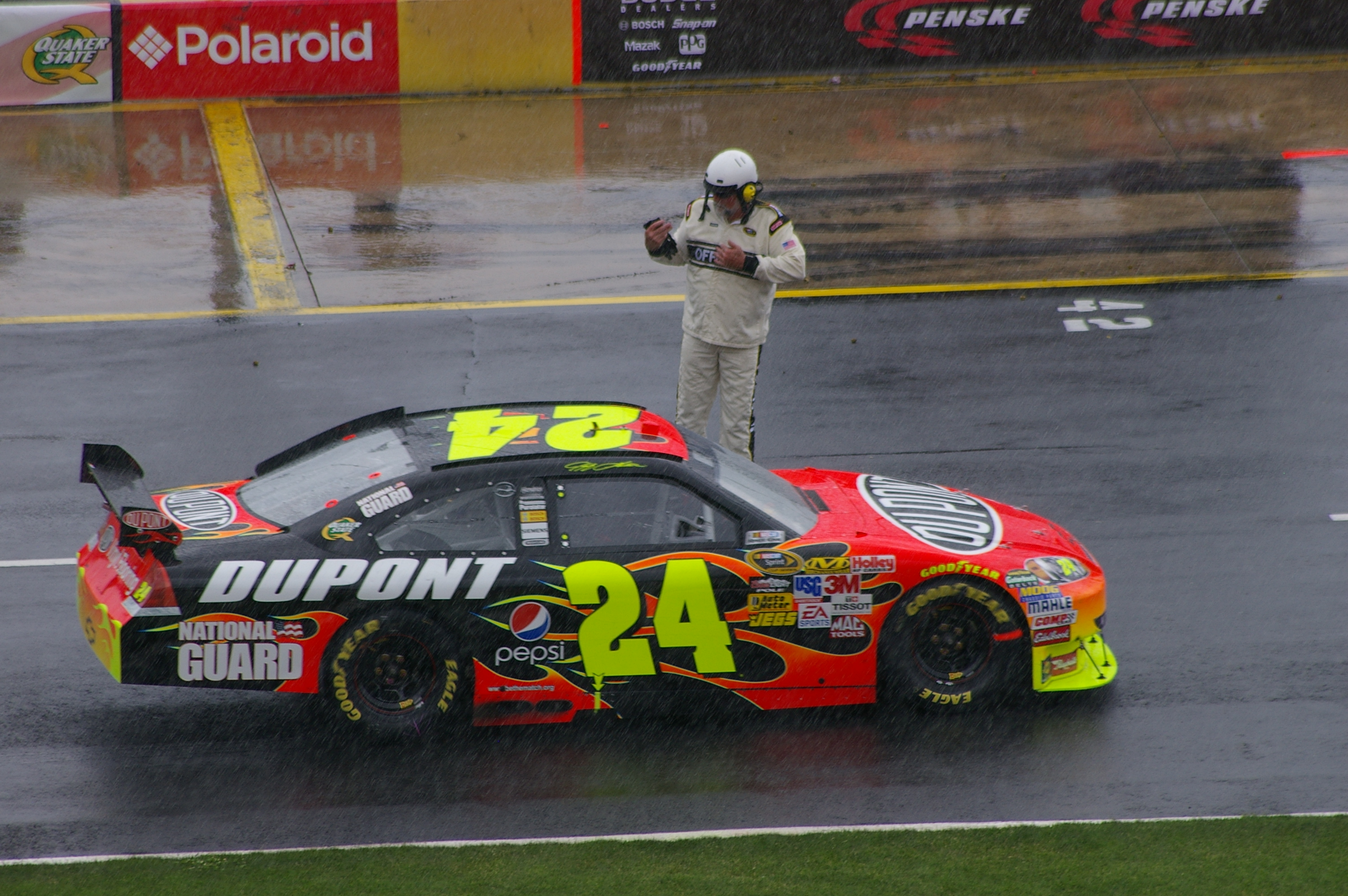 Cars come down pit road for first downpour of day 2